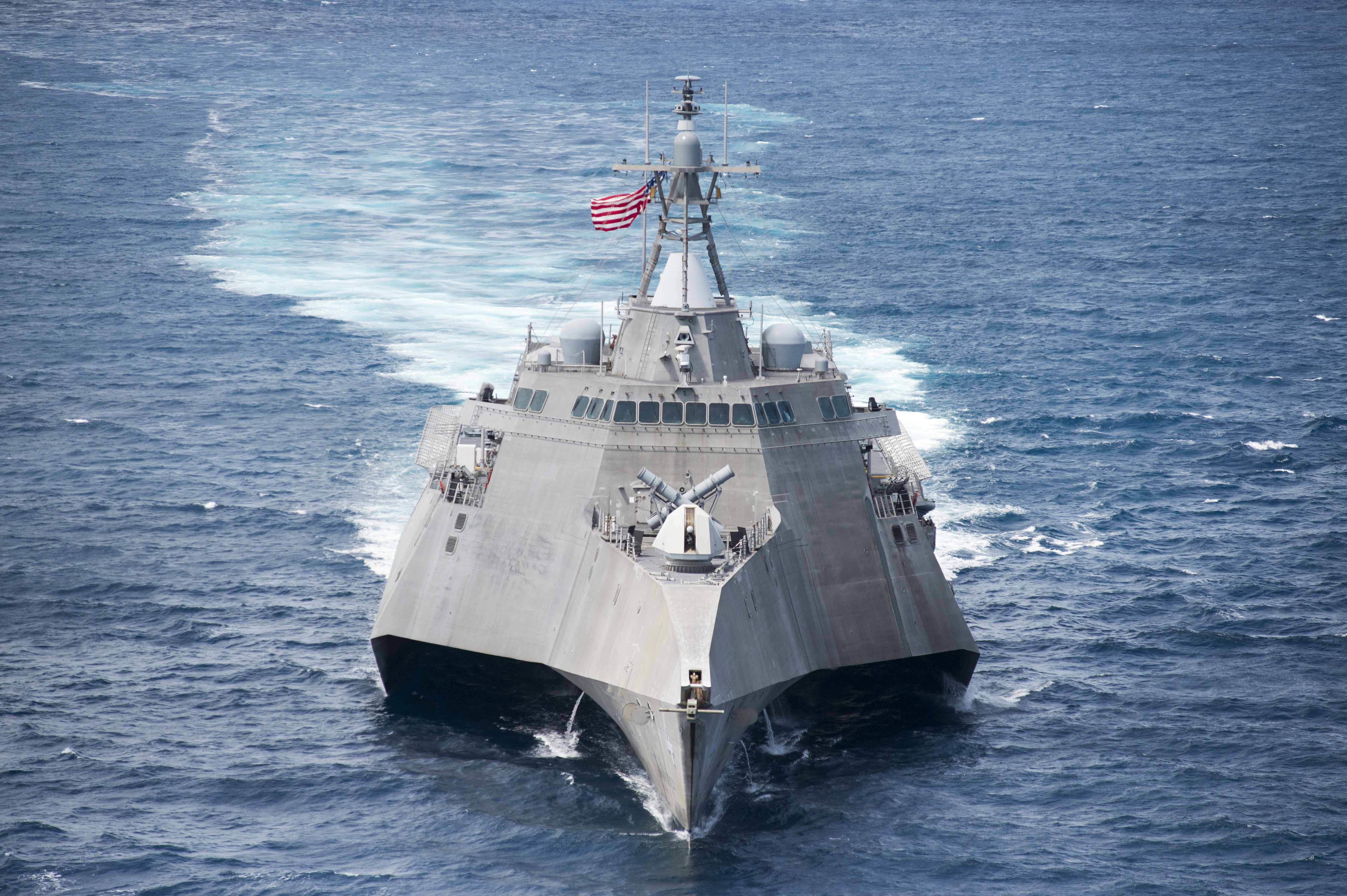 170603-N-PD309-113 GULF OF THAILAND (June 3, 2017) The littoral combat ship USS Coronado (LCS 4) steams ahead during a division tactics exercise in support of Cooperation Afloat Readiness and Training (CARAT) Thailand. CARAT is a series of Pacific Command-sponsored, U.S Pacific Fleet-led bilateral exercises held annually in South and Southeast Asia to strengthen relationships and enhance force readiness. CARAT exercise events cover a broad range of naval skill areas and disciplines including surface, undersea, air, and amphibious warfare; maritime security operations; riverine, jungle, and explosive ordnance disposal operations; combat construction; diving and salvage; search and rescue; maritime patrol and reconnaissance aviation; maritime domain awareness; military law, public affairs and military medicine; and humanitarian assistance and disaster response. (U.S. Navy photo by Mass Communication Specialist 3rd Class Deven Leigh Ellis/Released)